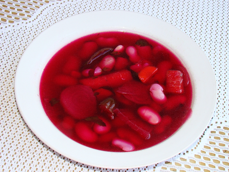 Beetroot soup with vegetables and beans, Sanok